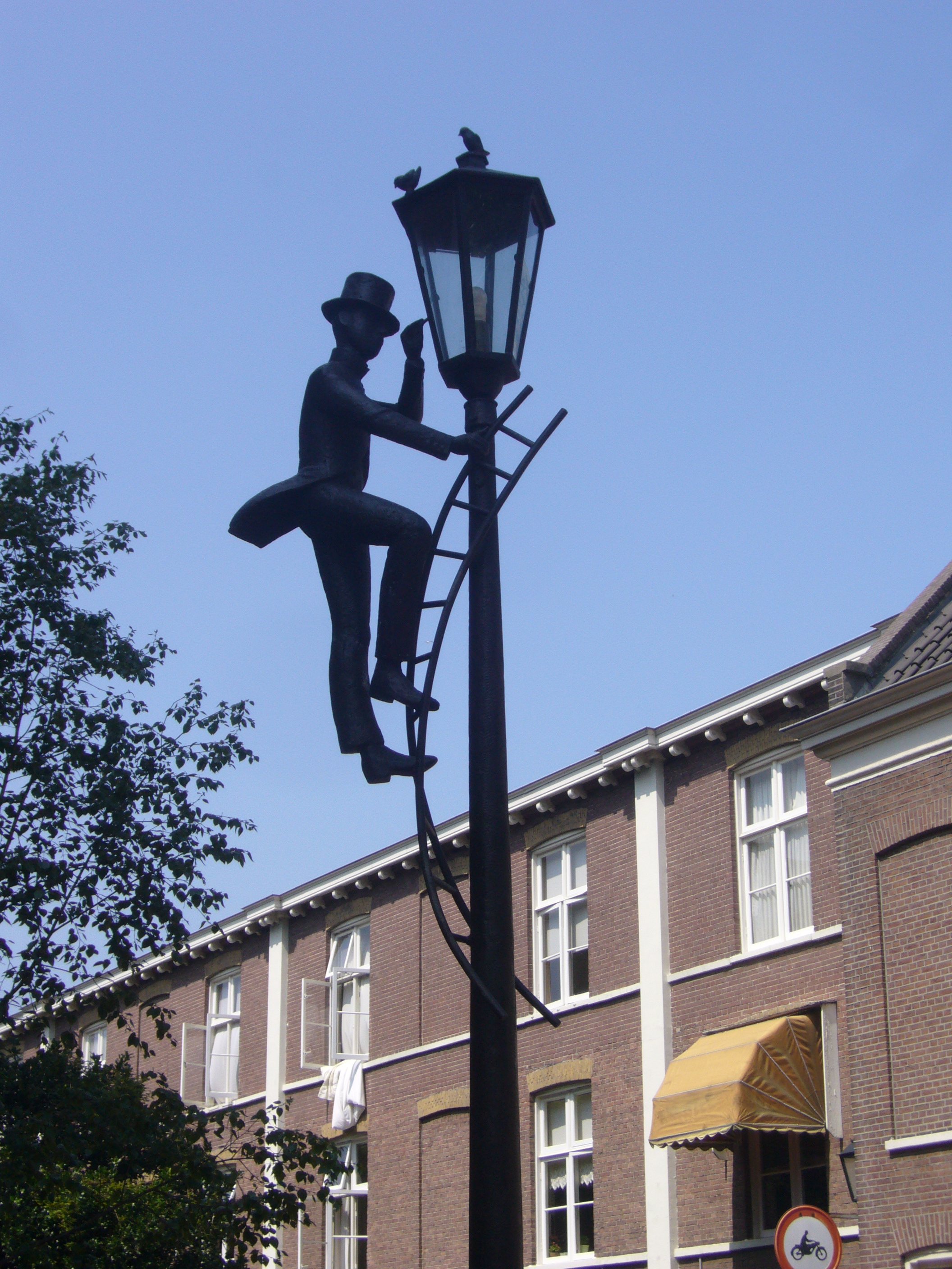 Bronze sculpture made by Loek Bos, Schuddegeest in The Hague/The Netherlands